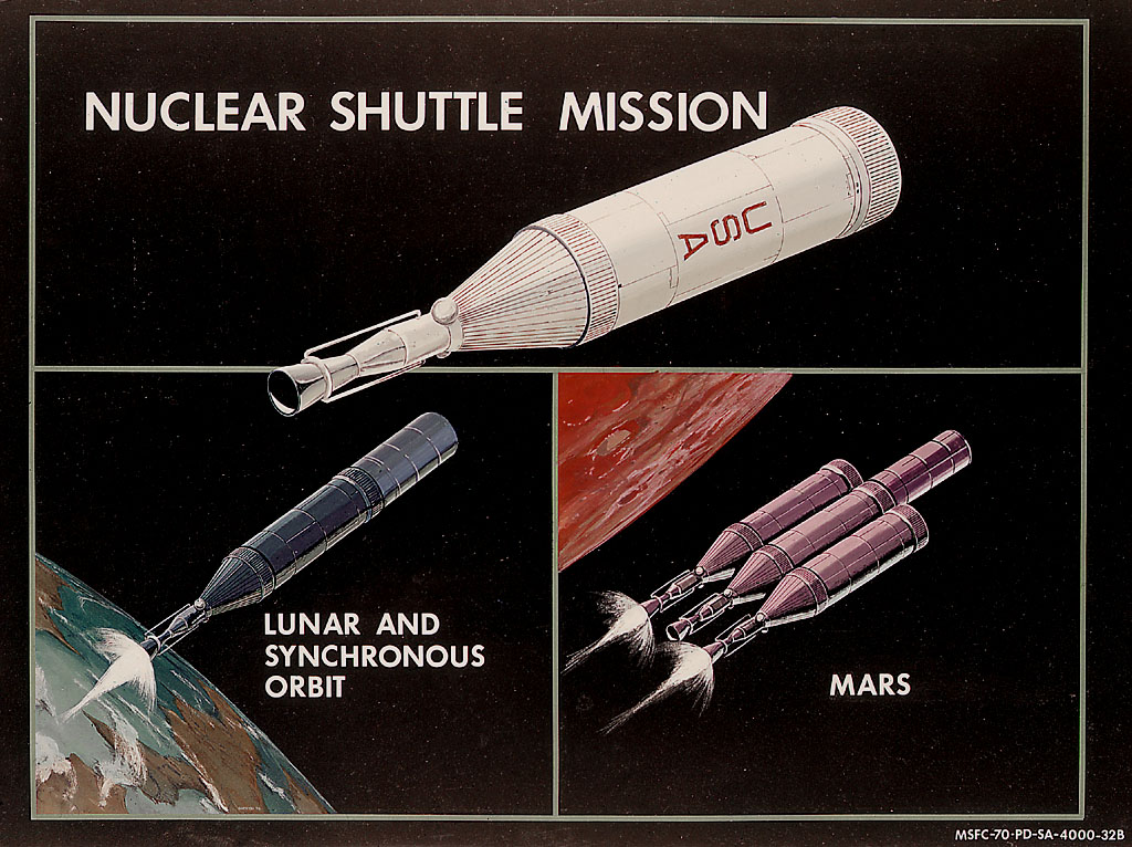 Nuclear Shuttle Mission In this 1970 artist's concept, the Nuclear Shuttle is shown in its lunar and geosynchronous orbit configuration and in its planetary mission configuration. As envisioned by Marshall Space Flight Center Program Development plarners, the Nuclear Shuttle would deliver payloads to lunar orbit or other destinations then return to Earth orbit for refueling. A cluster of Nuclear Shuttle units could form the basis for planetary missions.